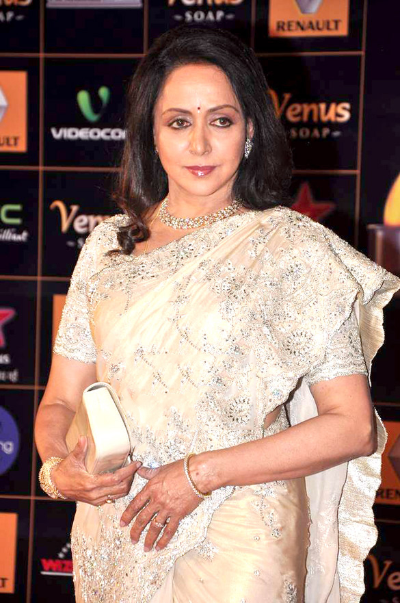 Hema Malini at the Renault Star Guild Awards ceremony